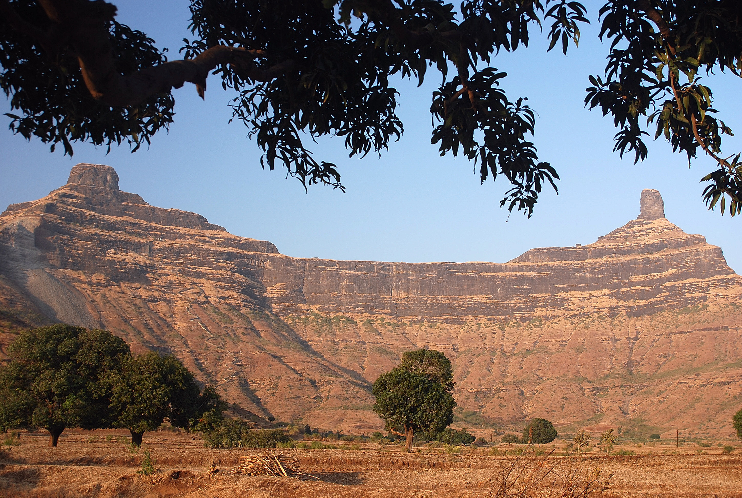 Mangi Tuni - twin fortified hill structures in Maharashtra